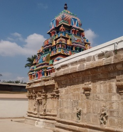 Dasavathara perumal/saranarayanaperumal temple சரநாராயணப்பெருமாள் என்னும் தசாவதாரப்பெருமாள் கோயில்